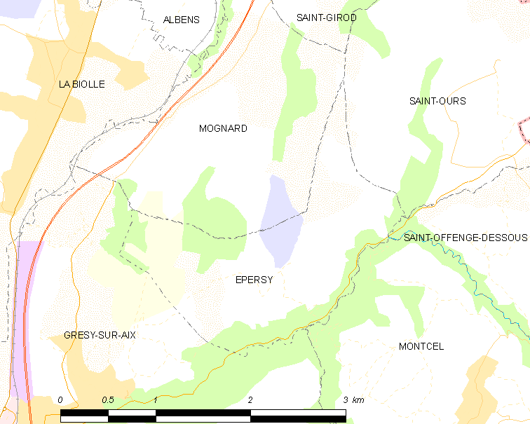 Map of French municipality